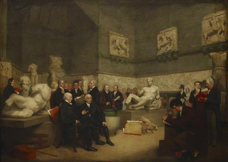 This painting shows an idealised view of the Temporary Elgin Room at the Museum in 1819, with portraits of staff, a trustee and visitors. The room was designed by the Museum’s architect, Robert Smirke, for the temporary display of the sculptures from the Parthenon brought from Athens by Lord Elgin known as the 'Elgin Marbles', purchased by the Government and deposited in the British Museum in 1816.